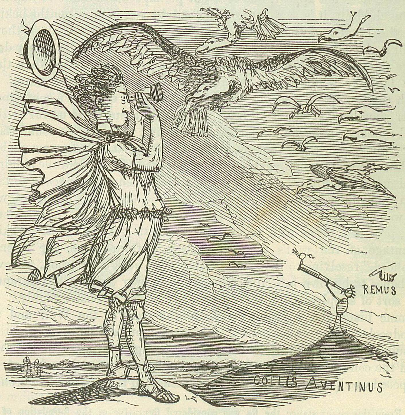 Image by John Leech, from: The Comic History of Rome by Gilbert Abbott A Beckett. Bradbury, Evans & Co, London, 1850s Romulus Consulting the Augury